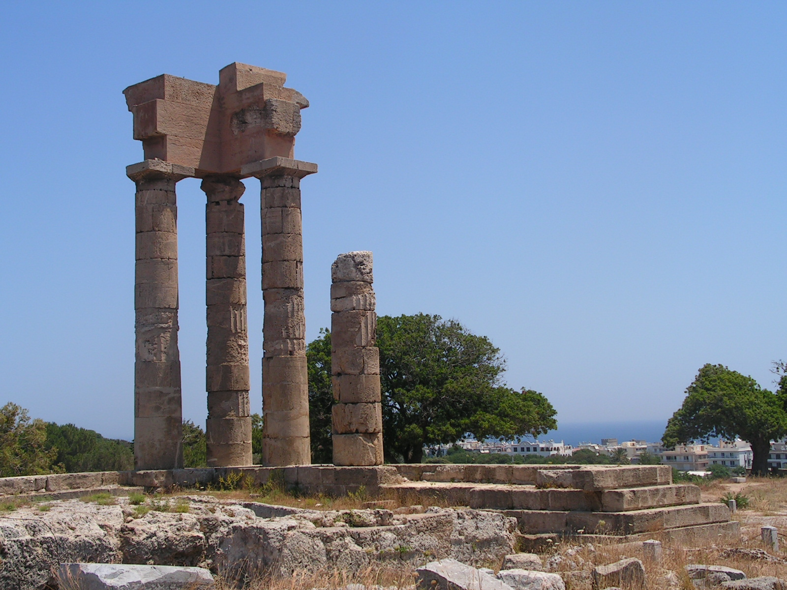 author: Petra Pospisilova